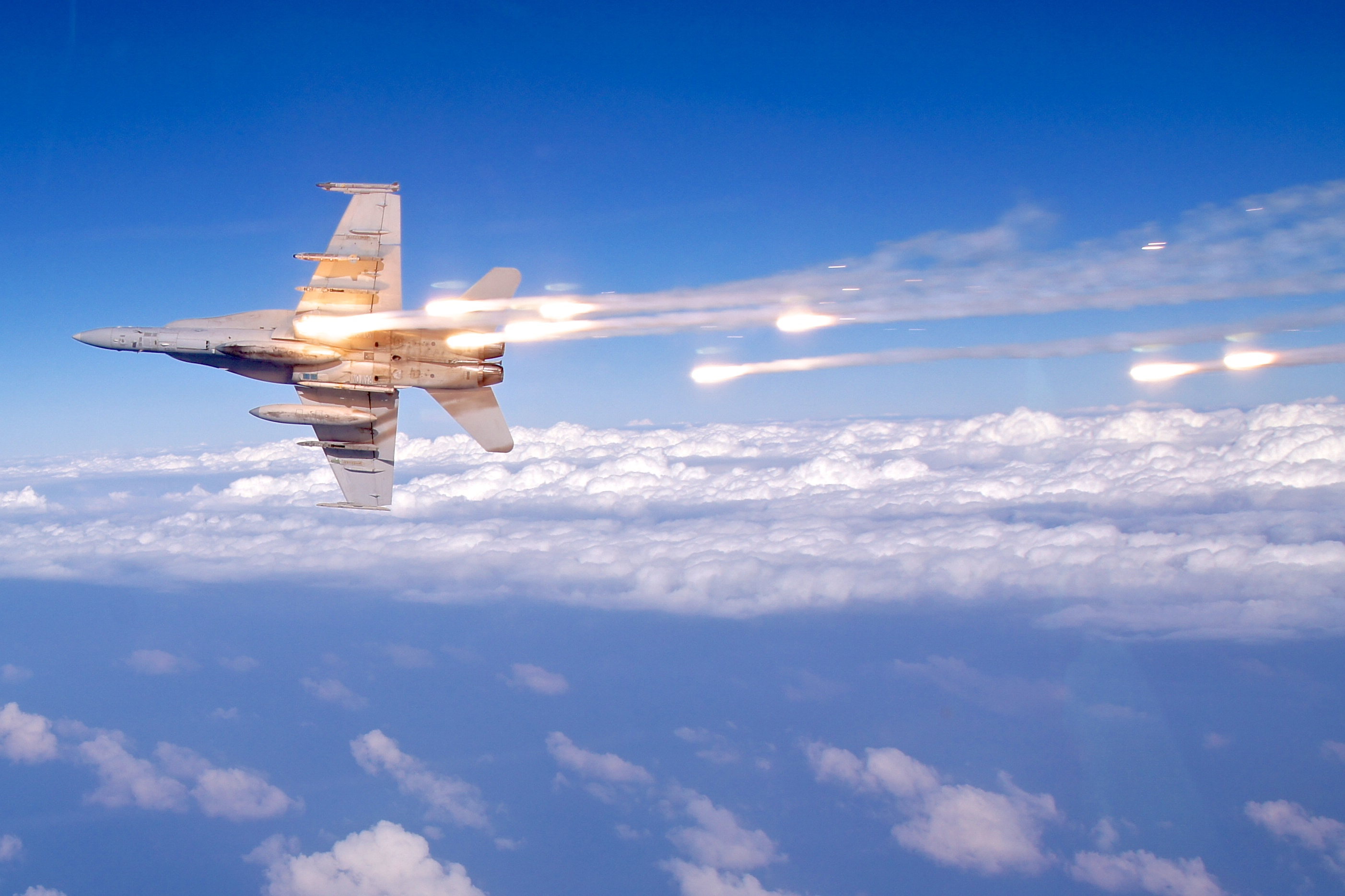 ARABIAN SEA (Nov. 21, 2012) Lt. Matt Reed, assigned to the Rampagers of Strike Fighter Squadron (VFA) 83, launches defensive flares during a flight from the aircraft carrier USS Dwight D. Eisenhower (CVN 69). VFA-83 and Dwight D. Eisenhower are returning to Norfolk after operating in the U.S. 5th Fleet area of responsibility in support of Operation Enduring Freedom, maritime security operations and theater security cooperation efforts. (U.S. Navy photo by Lt. Greg Linderman/Released) 121121-N-DO750-001 Join the conversation navylive.dodlive.mil